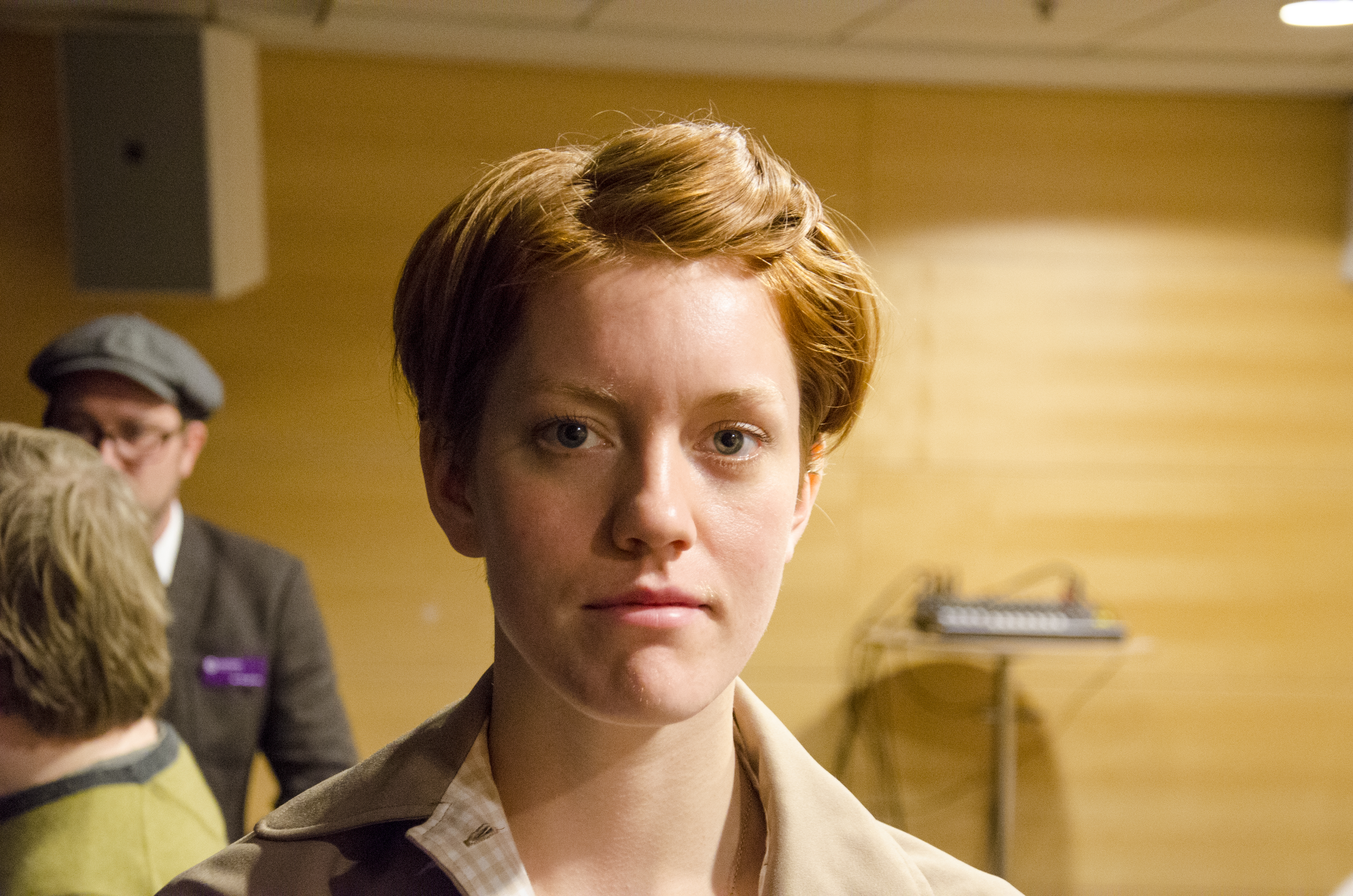 Valgerður Þóroddsdóttir at the Gothenburg Book Fair 2015.